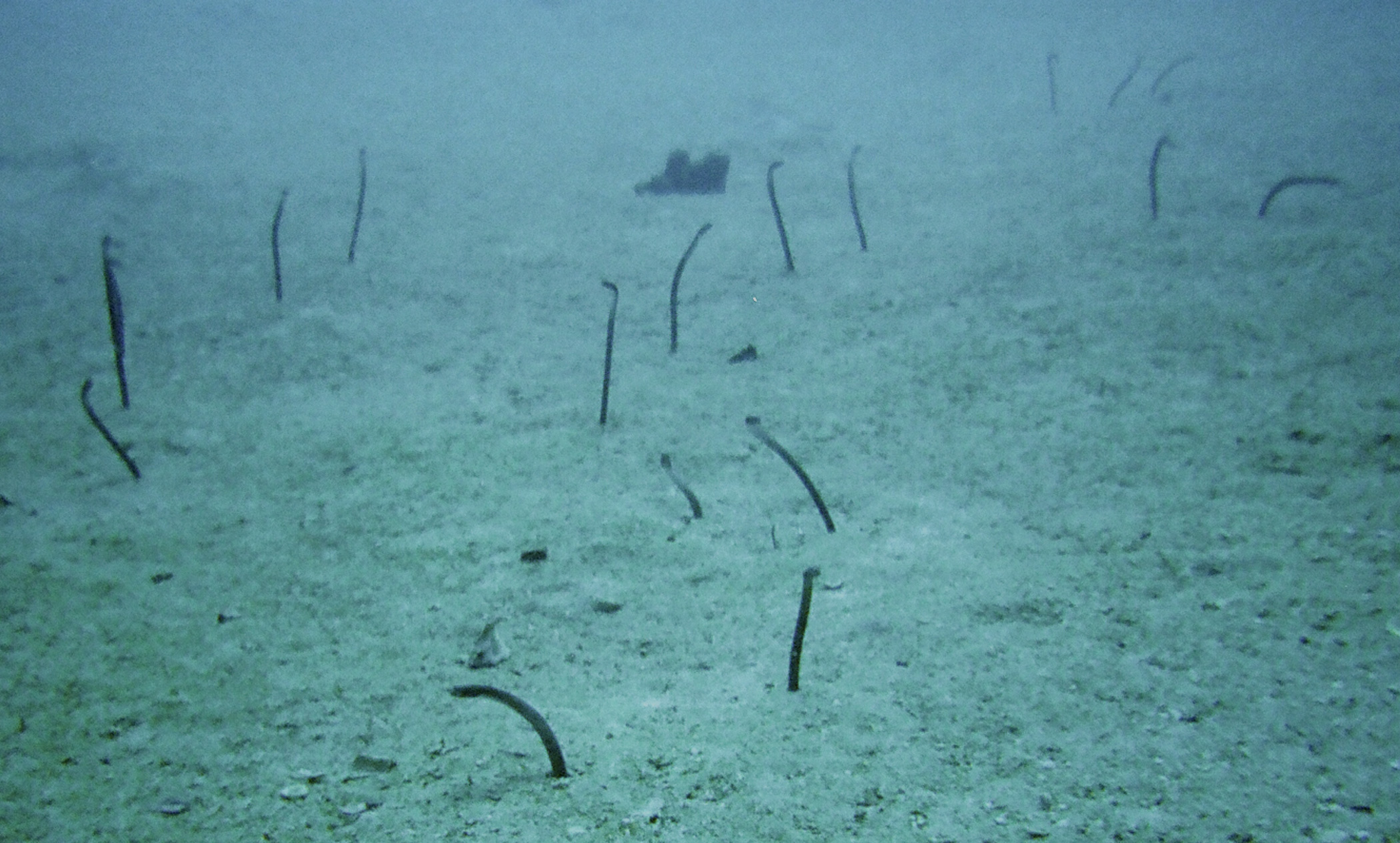 when you approach them they dig themselves in the sand